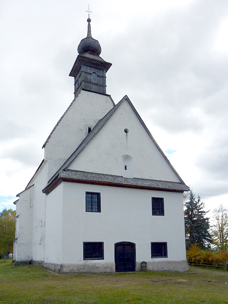 Sankt Hemma Westfassade